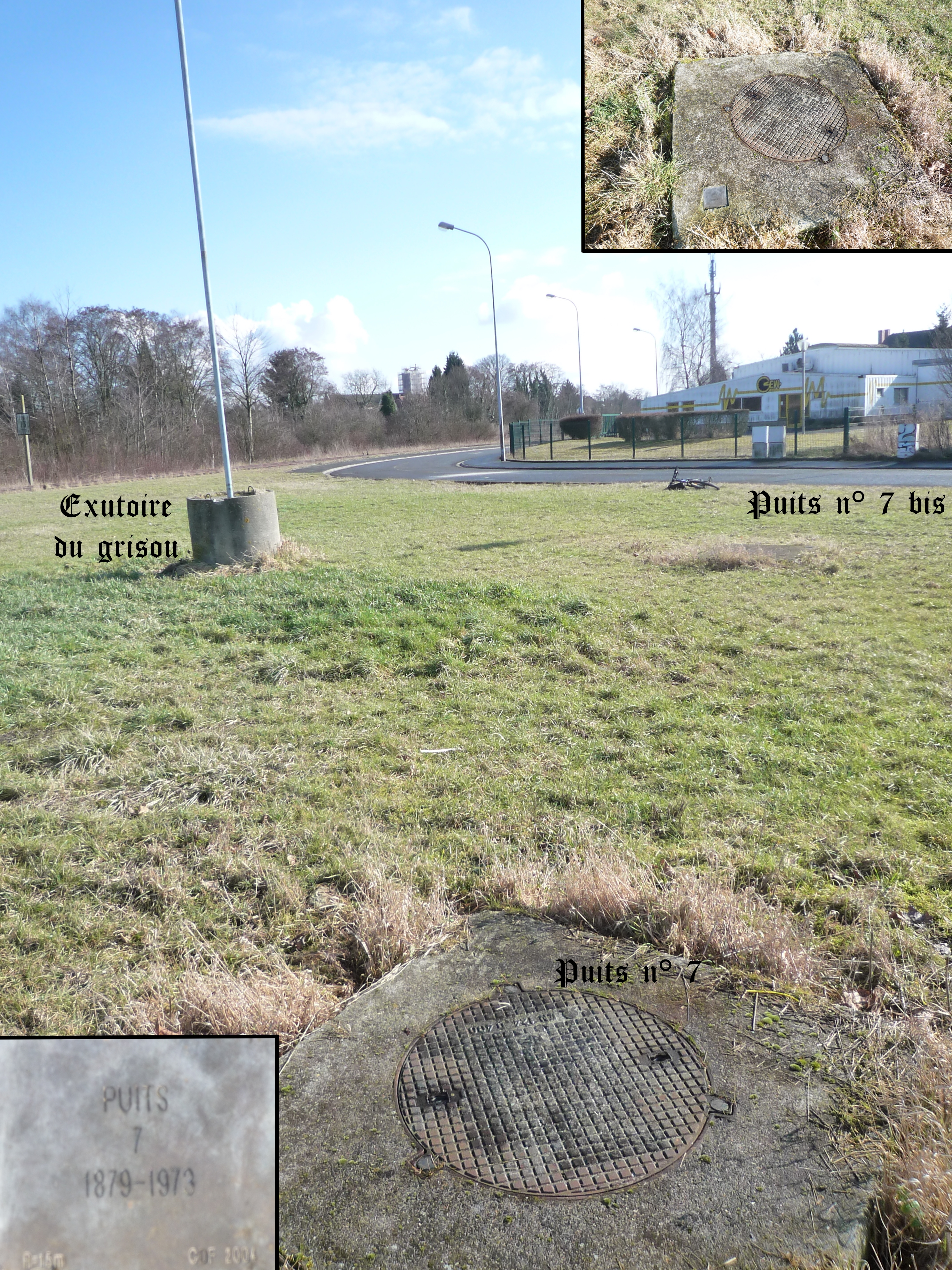 Pit n° 7, Compagnie des mines de Lens, Wingles, Pas-de-Calais, Nord-Pas-de-Calais, France.